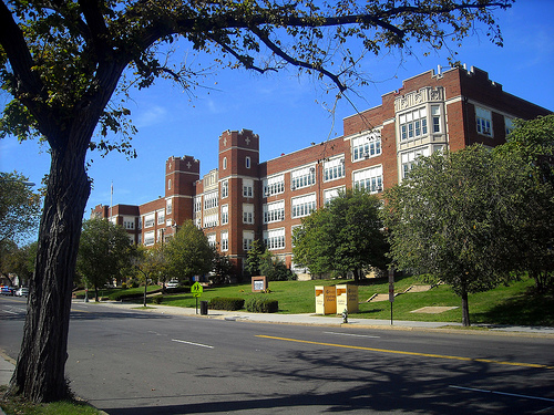 Eastern Senior High School located at 1700 East Capitol Street, NE in Washington